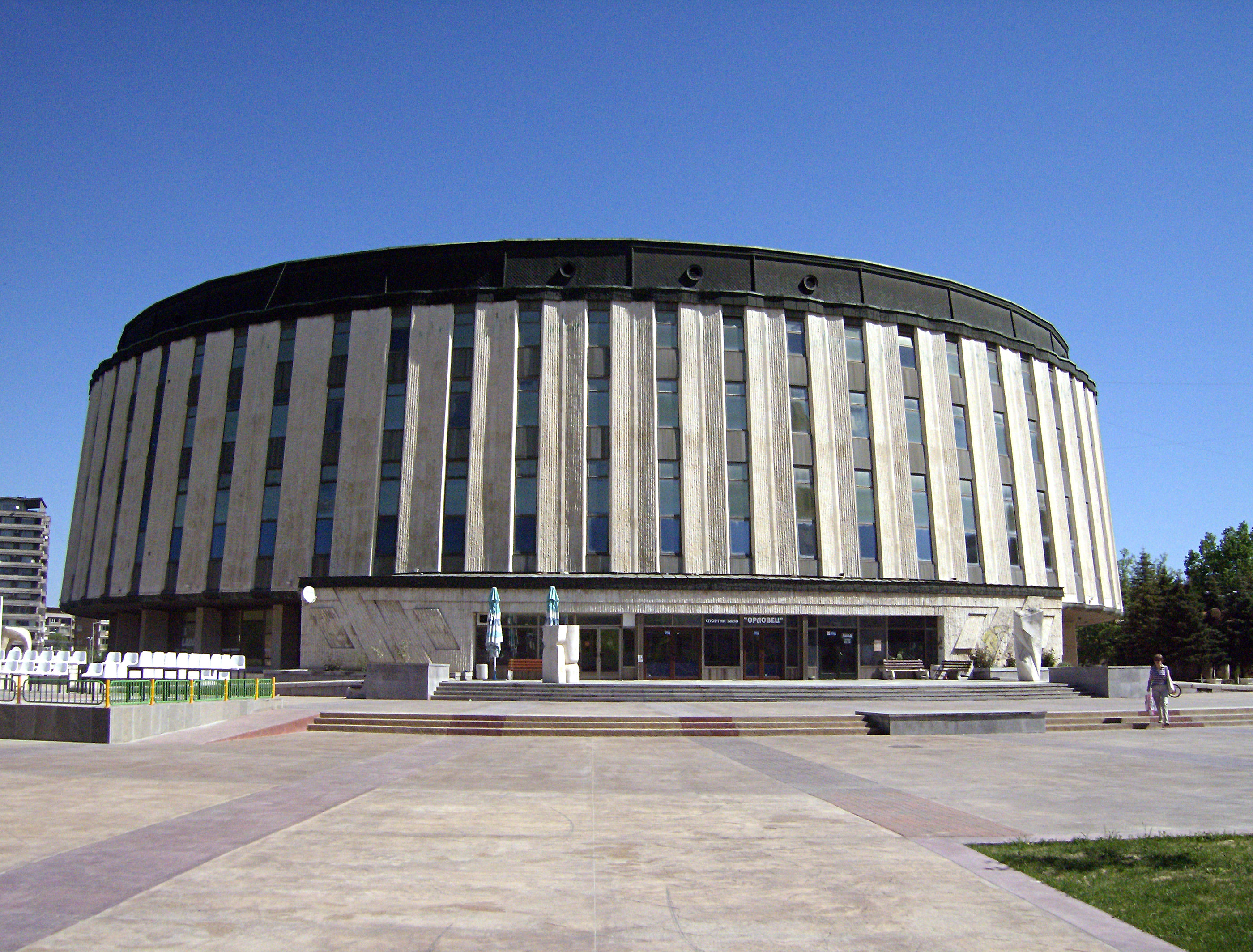 Orlovets Hall